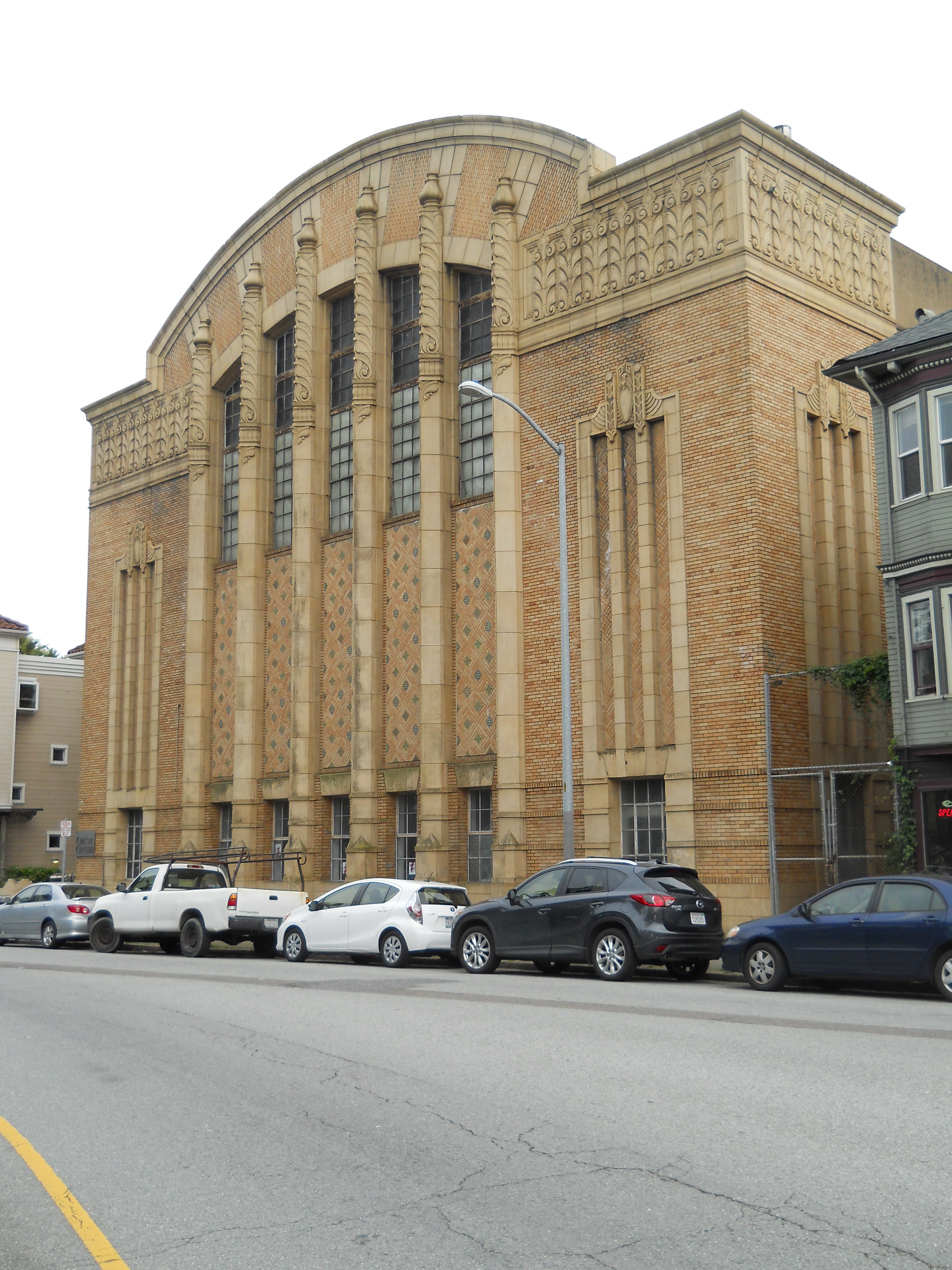 Former boys' gymnasium of the now defunct San Francisco Polytechnic High School